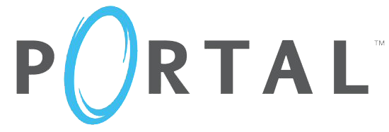 Portal's logotype.